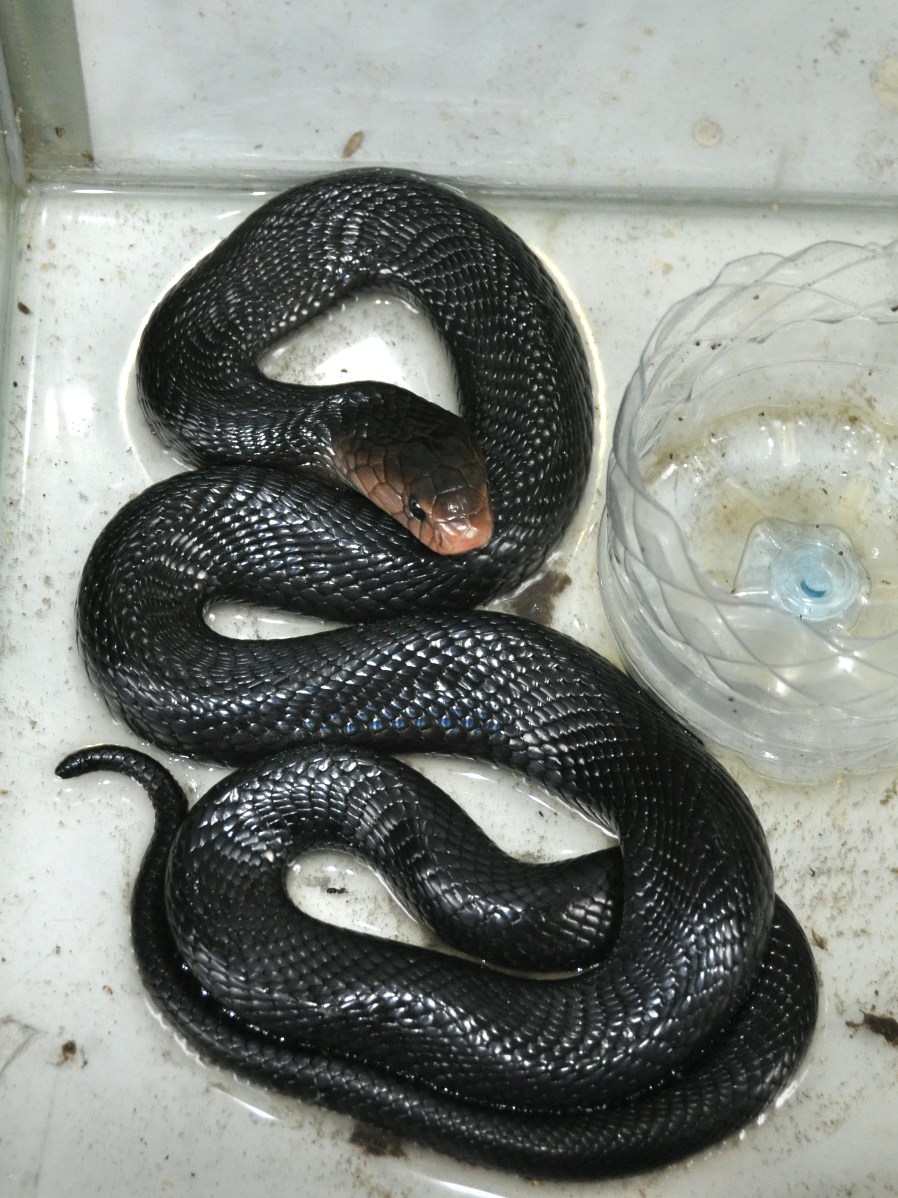 Young Javan spitting cobra, Naja sputatrix; ca. 88 cm TL. From Bogor, West Java, Indonesia.